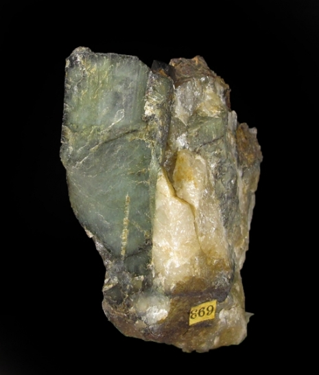 Andesine Locality: Silberberg Mine, Bodenmais, Lower Bavaria, Bavaria, Germany Size: 3.2 x 2.7 x 1.7 cm. Mineral specimens of any variety are rare from this ancient polymetamorphic iron sulphide deposit, hosted in cordierite-garnet gneiss that is disseminated by quartz veins. First documented mining took place in 1436 and continued intermittently until 1962 (MINDAT). Andesine specimens are extremely rare. A 5.3 cm, sharp, blocky, lustrous black-skinned crystal is set in massive quartz matrix with a few micro pyrrhotites. Part of the crystal is contacted, with no damage, per se. The right side of the crystal is cleaved, which shows the highly lustrous, partially translucent, jade-green interior. A rare old classic. The accompanying German label has a December 24, 1921 date.